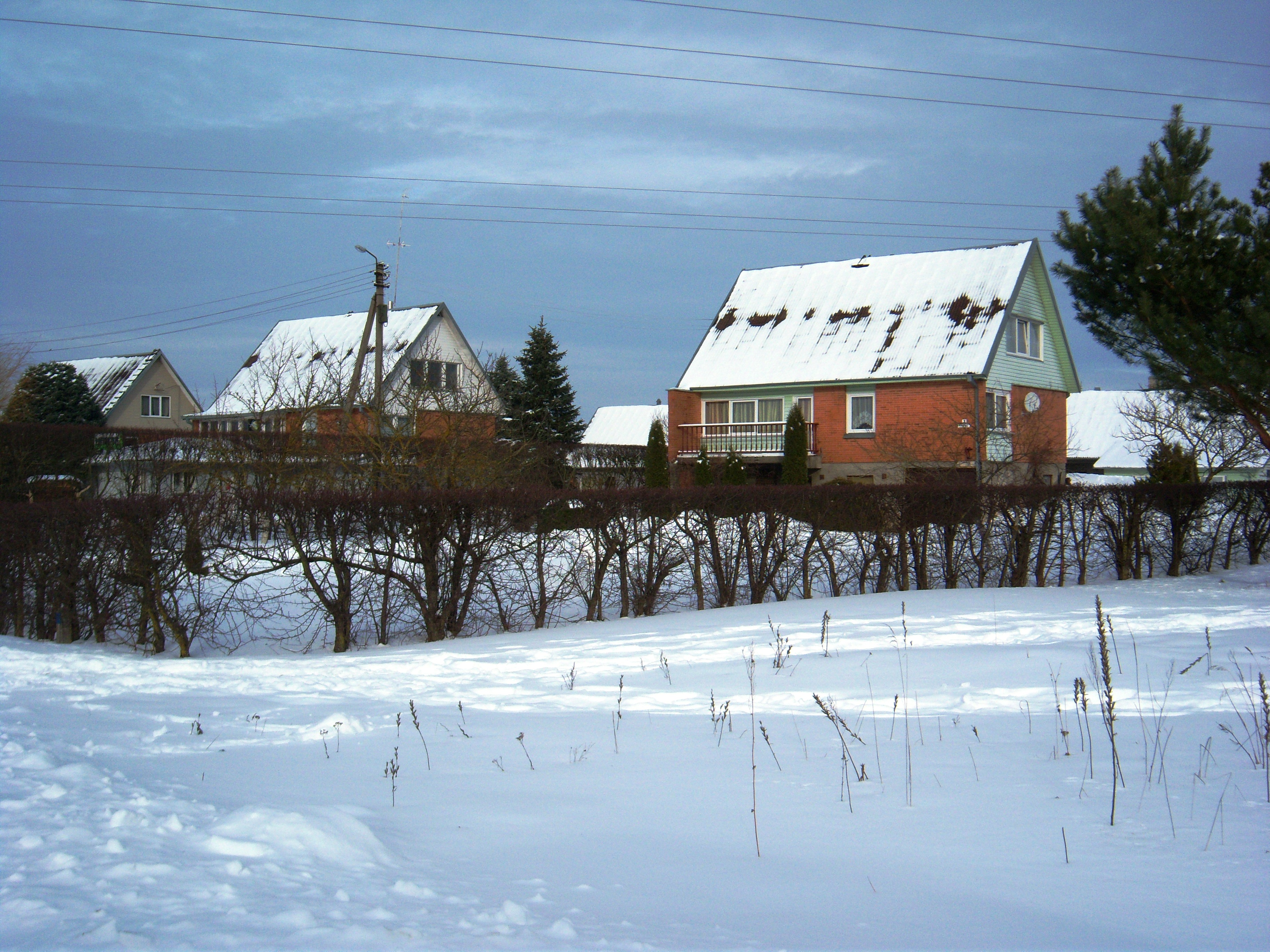 Dievogala, Parko Street. Alytus-type prefab homes. Kaunas District, Lithuania